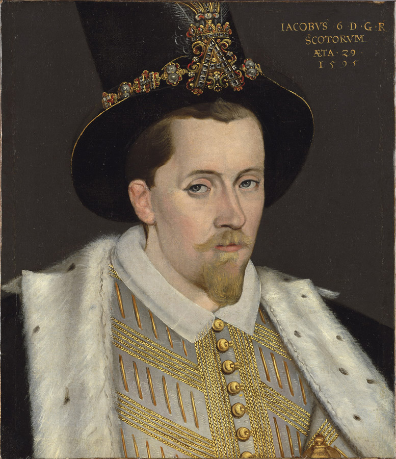 Portrait of James I of England as James VI of Scotland, 1595.